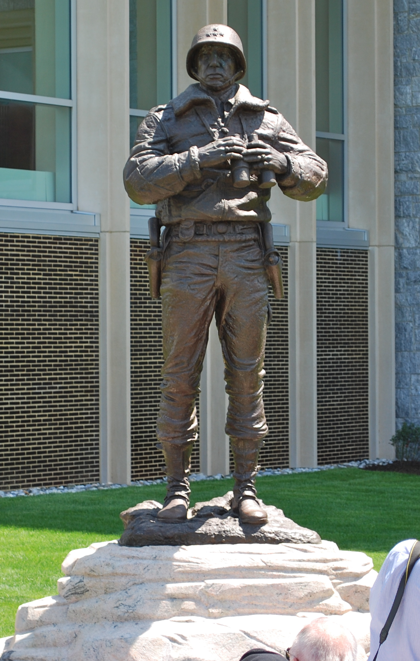 Monument to General George S. Patton at West Point, May 2009